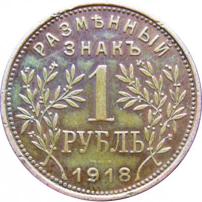 Armavir 1 rouble coin, second issue (1918), obverse